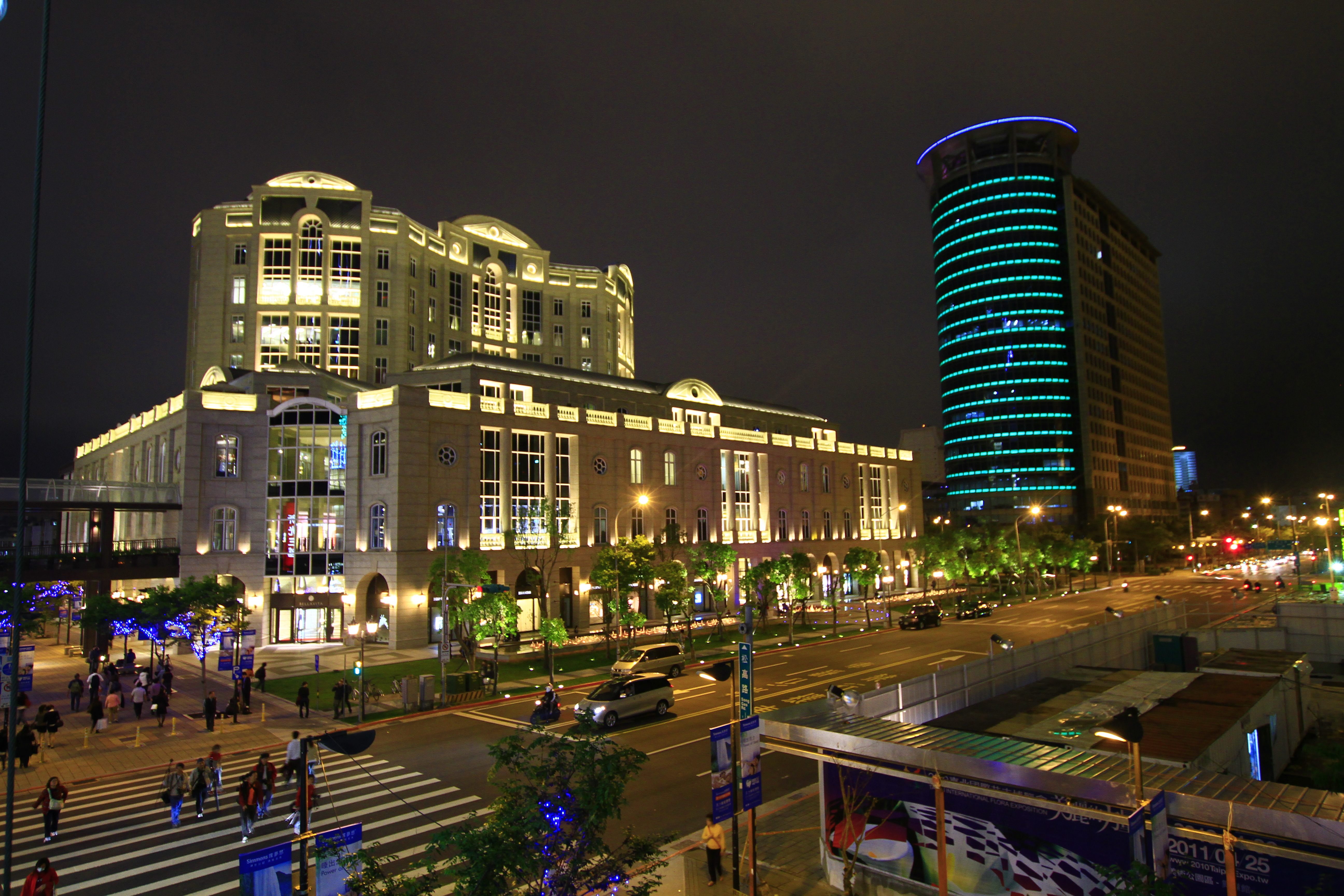 Bellavita and Head Office of CPC Corporation, Taiwan (hand-held shot)